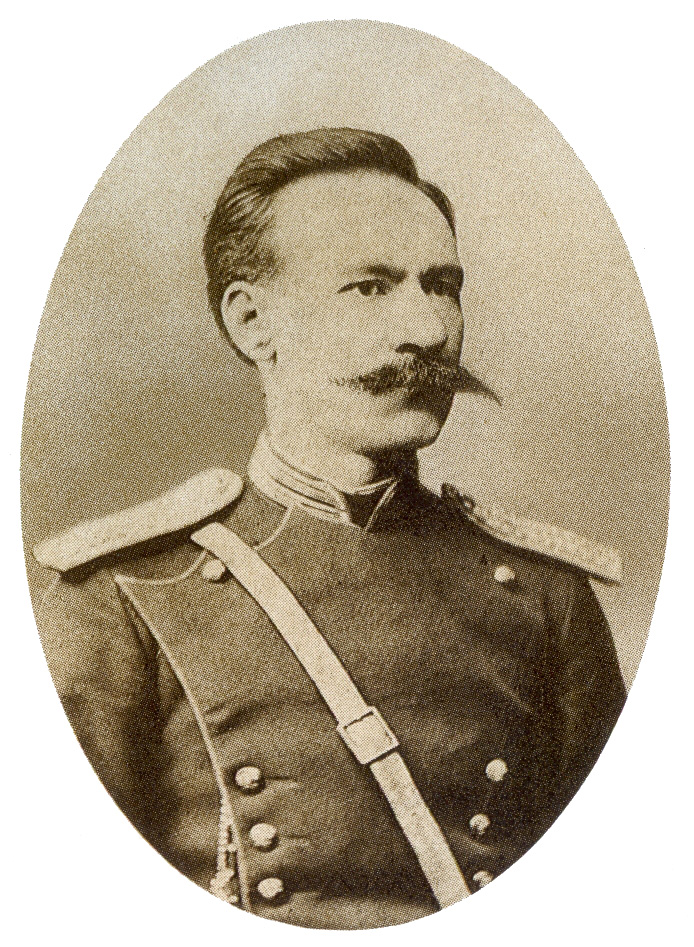 Portrait of Dimiter Popgeorgiev